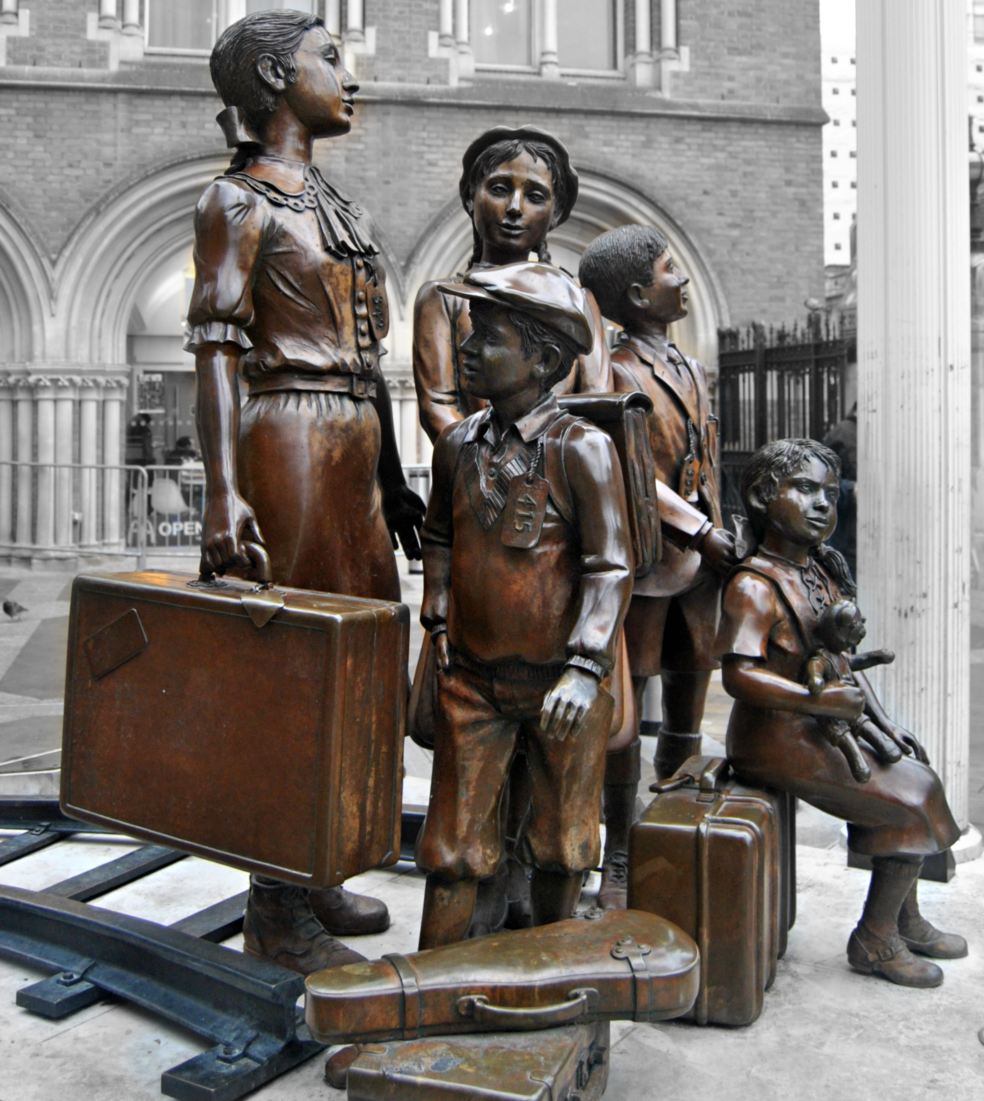 Took this image today while on a city walkabout.. Hope Square is dedicated to the Children of the Kindertransport, who found hope and safety in Britain through the gateway of Liverpool Street Station. Association of Jewish Refugees, Central British Fund for World Jewish Relief, 2006. On a plaque behind the statues Children of the Kindertransport In gratitude to the people of Britain for saving the lives of 10,000 unaccompanied mainly Jewish children who fled from Nazi persecution in 1938 and 1939. "Whosoever rescues a single soul is credited as thought they had saved the whole world." Talmud To the sides of the statues are 16 bronze blocks carry place-names Cologne, Hanover, Nuremberg, Stuttgart, Dusseldorf, Frankfurt, Bremen, Munich, Danzig, Breslau, Prague, Hamburg, Mannheim, Leipzig, Berlin, Vienna On a plaque attached to the railway track behind the statues Frank Meisler, Arie Ovadia, 2006 The sculptor, Meisler was one of the children saved. Selective colour used with ipiccy..